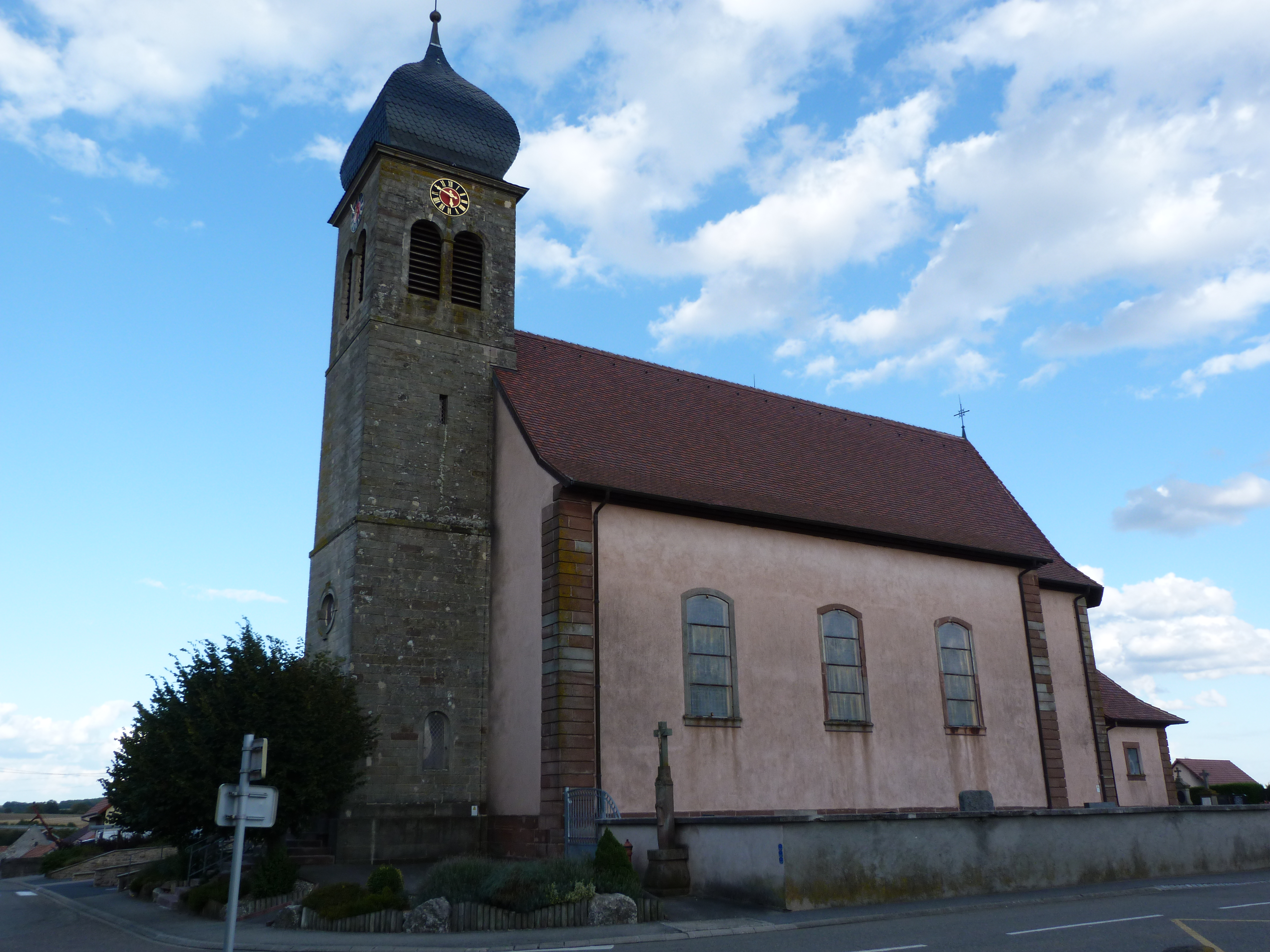 It is indexed in the Base Mérimée, a database of architectural heritage maintained by the French Ministry of Culture, under the references IA67000839 and PA00085299 .